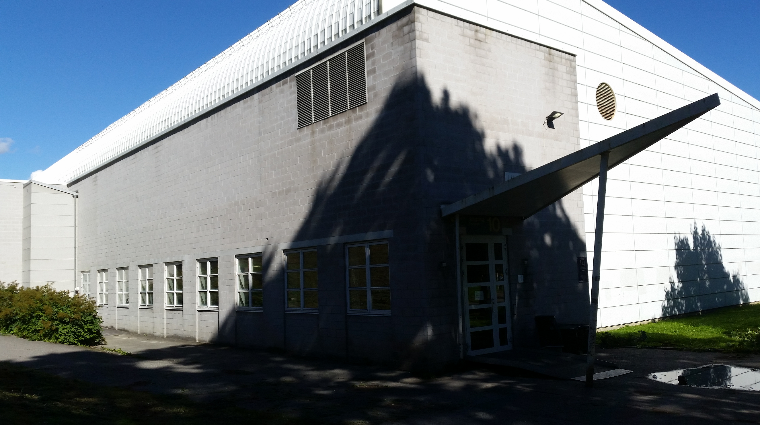 Picture of Jordal Ungdomshall